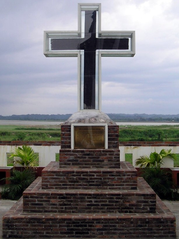 Orig. Flickr description: The cross is believed to be 300 years old and was installed at a park in front of the Lal-lo church to commemorate the 400th anniversary of the arrival of the Our Lady of Piat image in Lal-lo from Macau, China. Across is the mighty Cagayan River. Olympus Camedia (SWP North Luzon Cluster Consultations, June 2005). Slightly improved with Picasa.